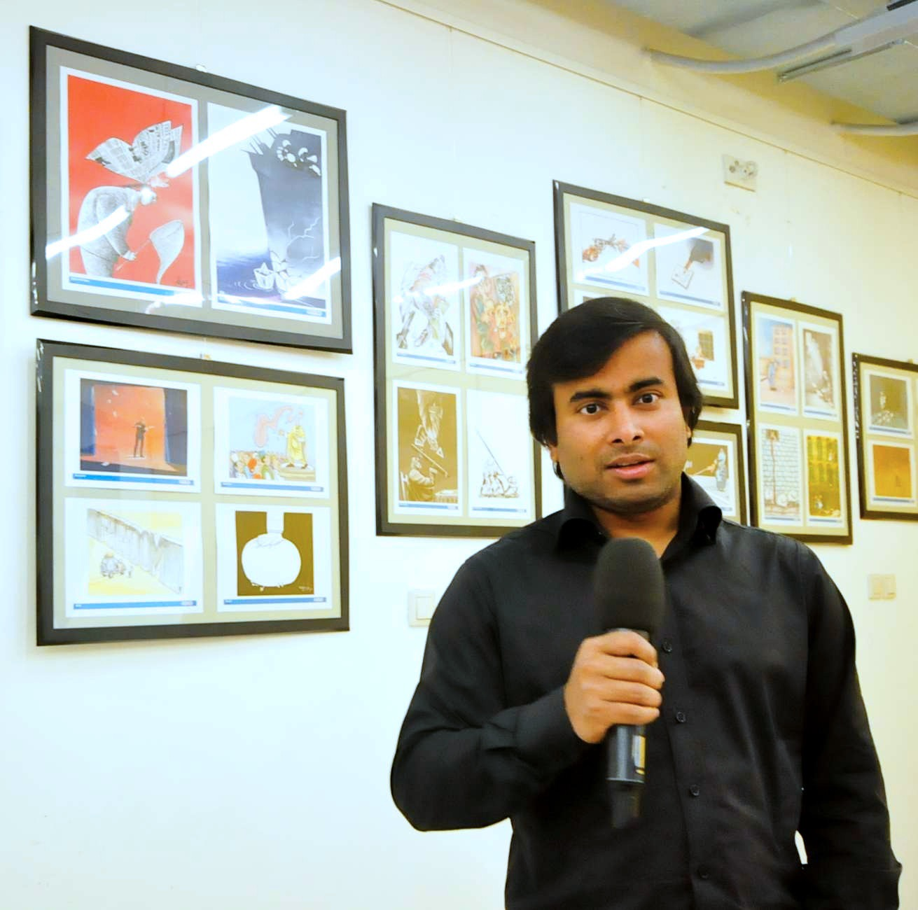 Women’s rights exhibition opening in Slovakia